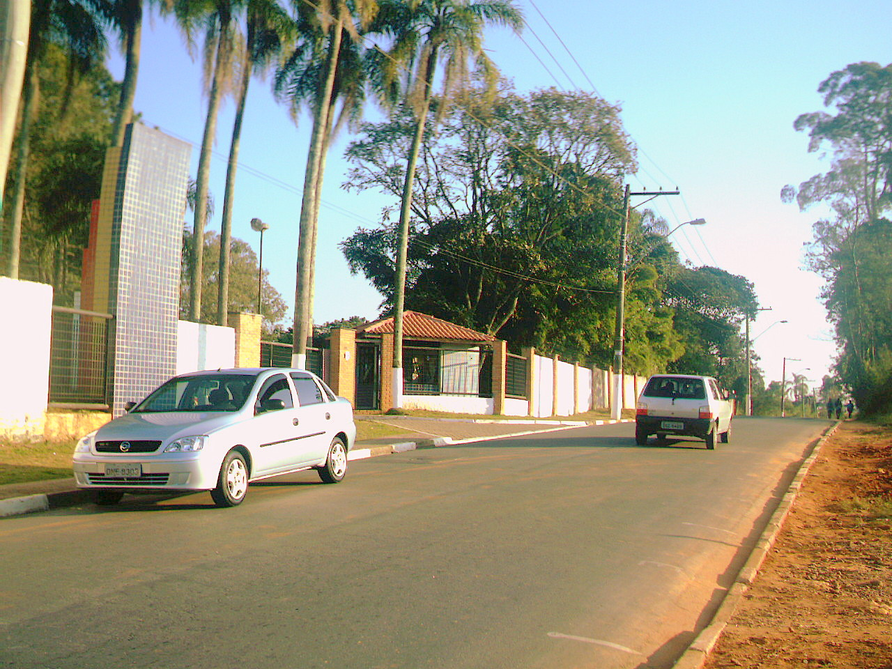 SOS Children's Villages International, in Poá, Brazil